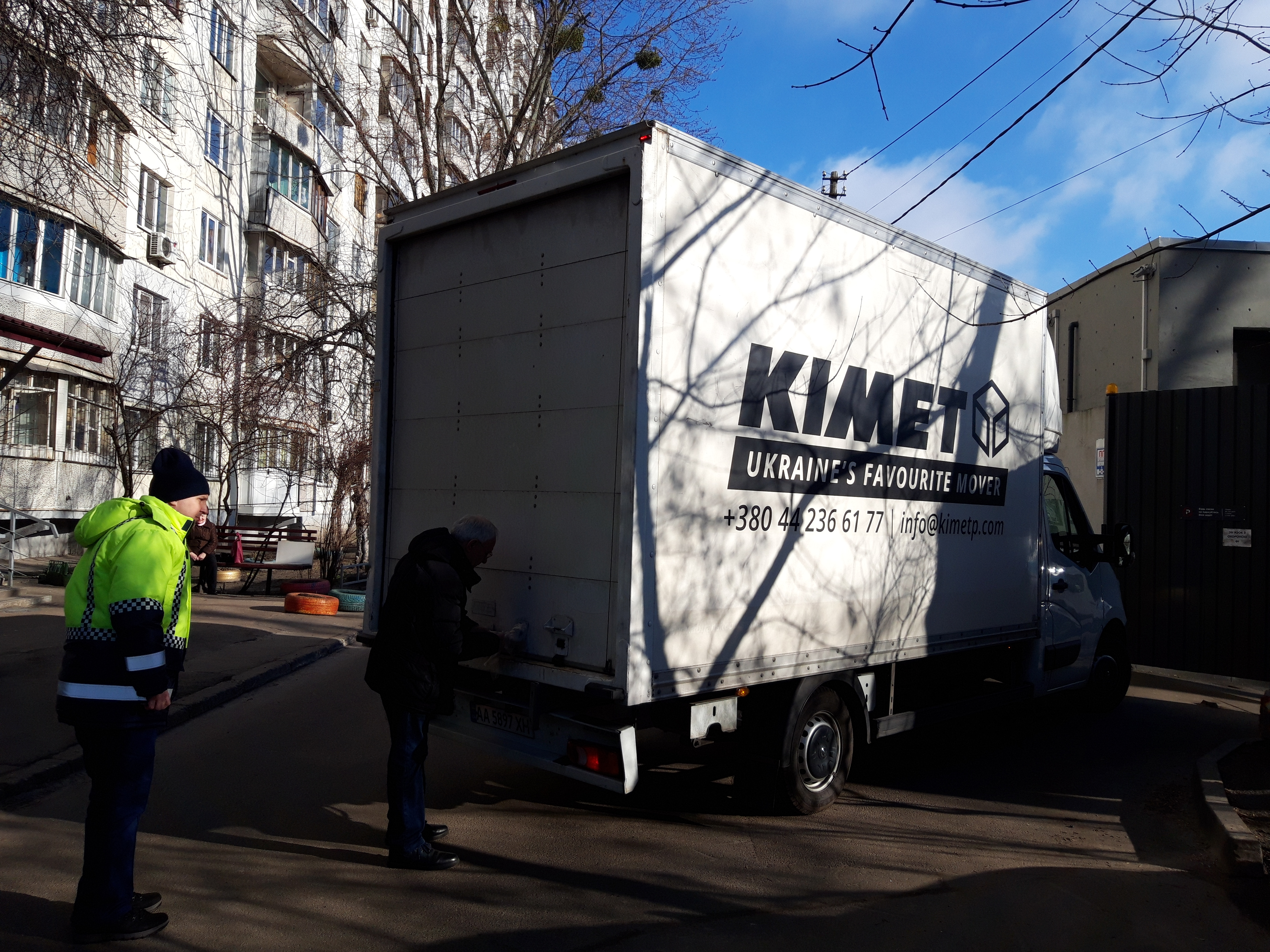 Kimet plus auto